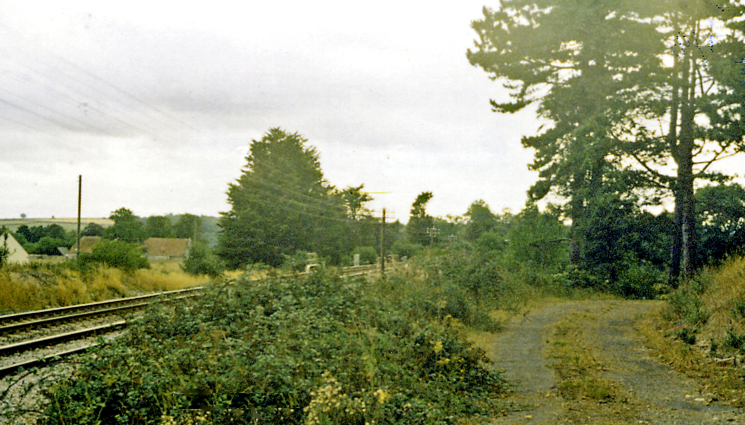 Site of Charlton Mackrell station. View westward, towards Taunton: ex-GWR London - Penzance main line, i.e. the later direct line avoiding Bristol. Until 10/9/62 a local service was run between Castle Cary and Taunton calling here, but the station was then closed on this date and 22 years later there was no sign of it.